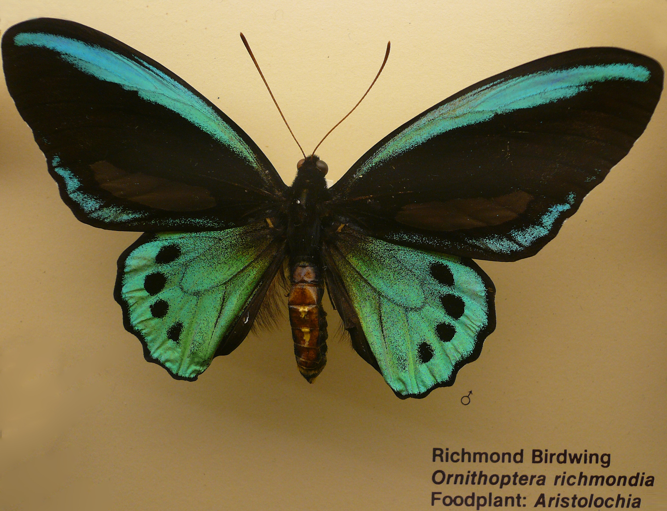 Richmond Birdwing. Ornithoptera richmondia. Male. Australian Museum, Sydney, Australia